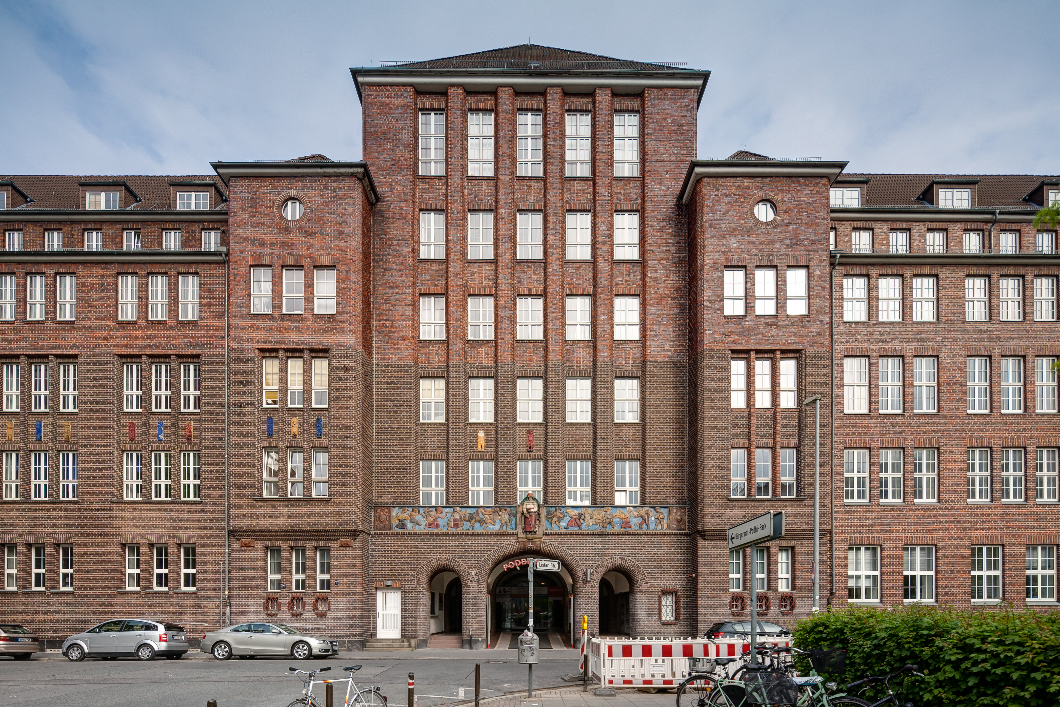 Former plant of Bahlsen cookie producer located at Lister Strasse in List district, Hanover, Germany.